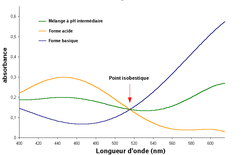 Bromocresol green spectrum, at three different pH values (acid, alkaline, and intermediate pH = 4.7 )